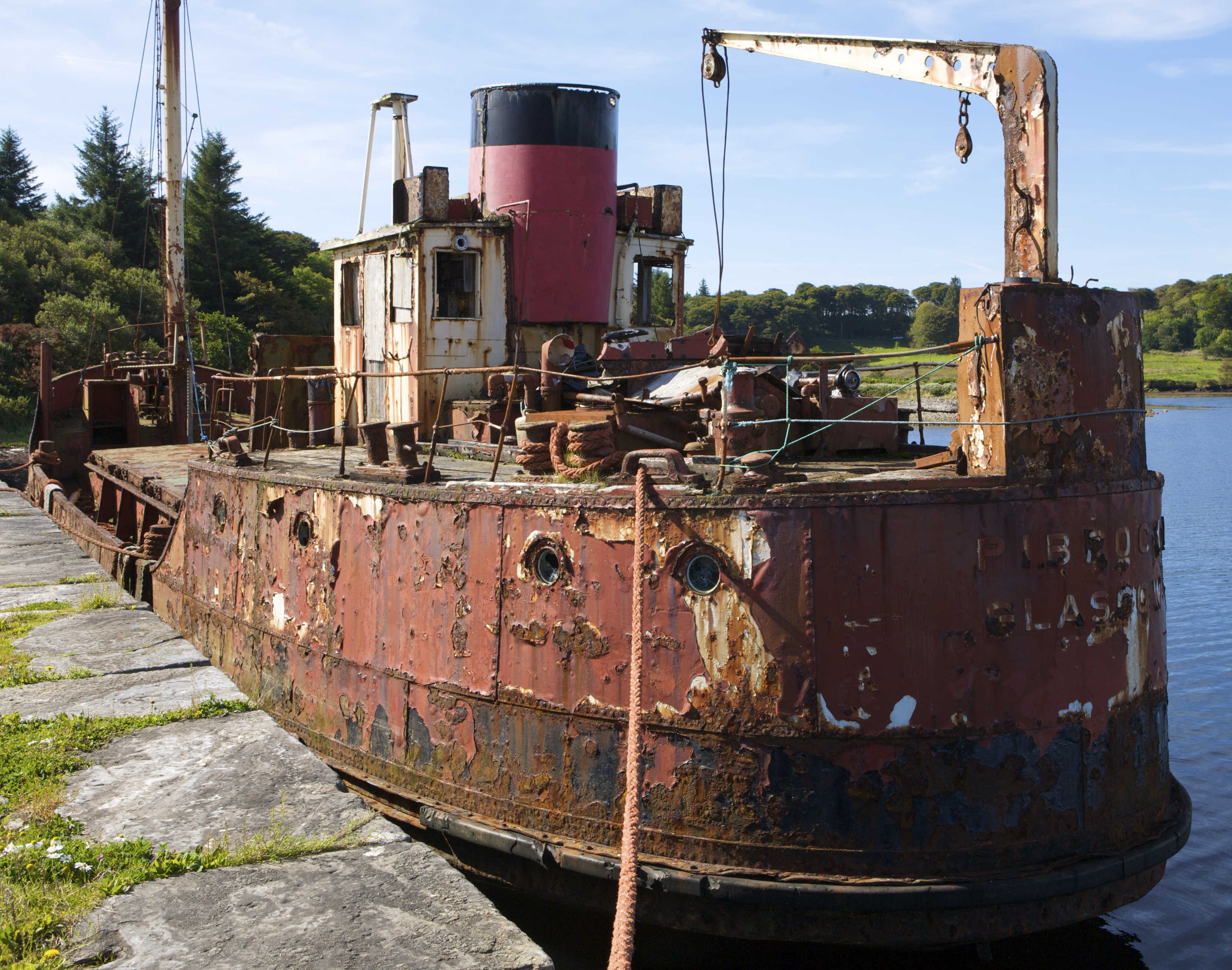 The Clyde Puffer Pibroch lying at Letterfrack, Co. Galway, Ireland. September 2009.